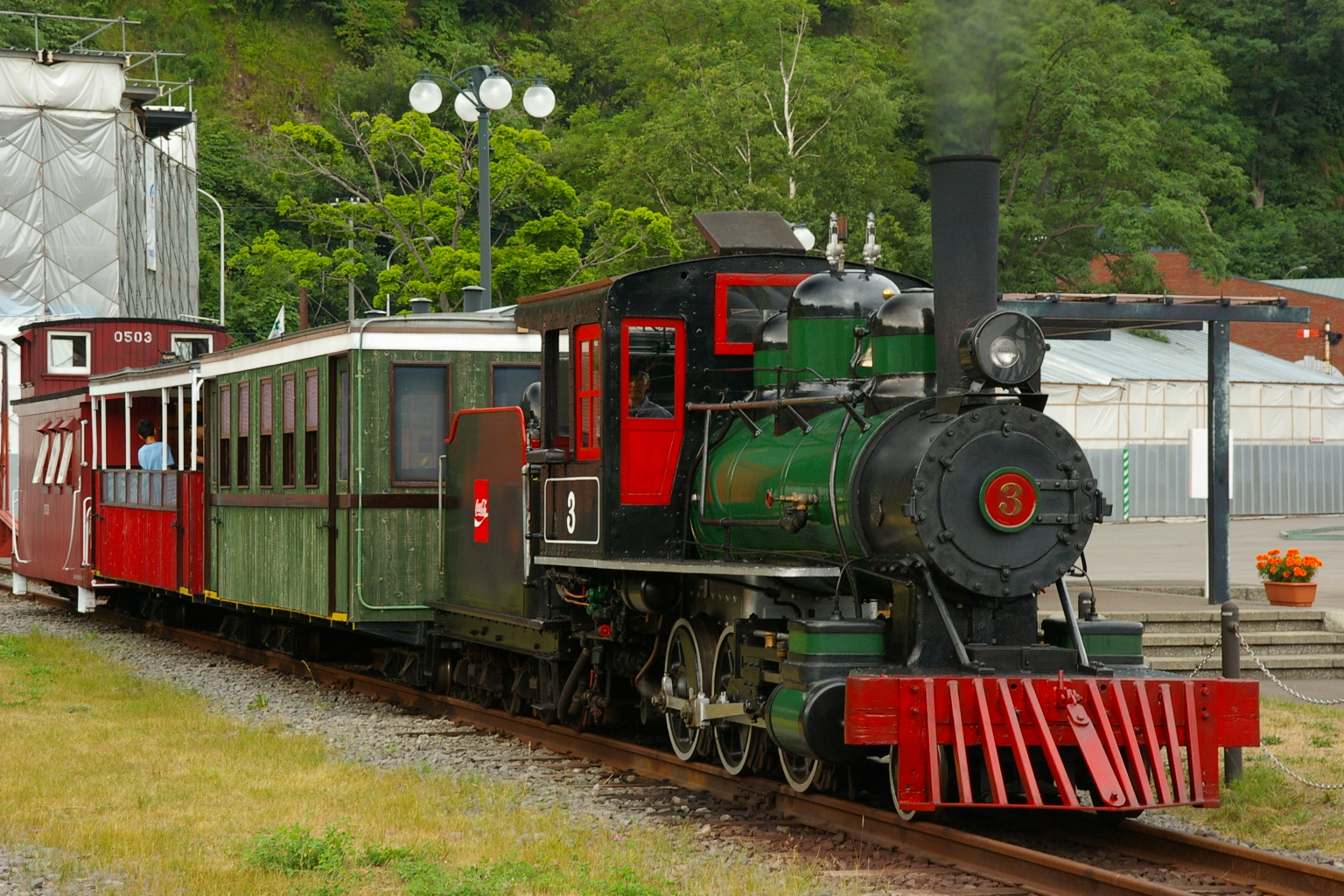 Steaml locomotive "Iron Horse" in Otaru synthesis museum.